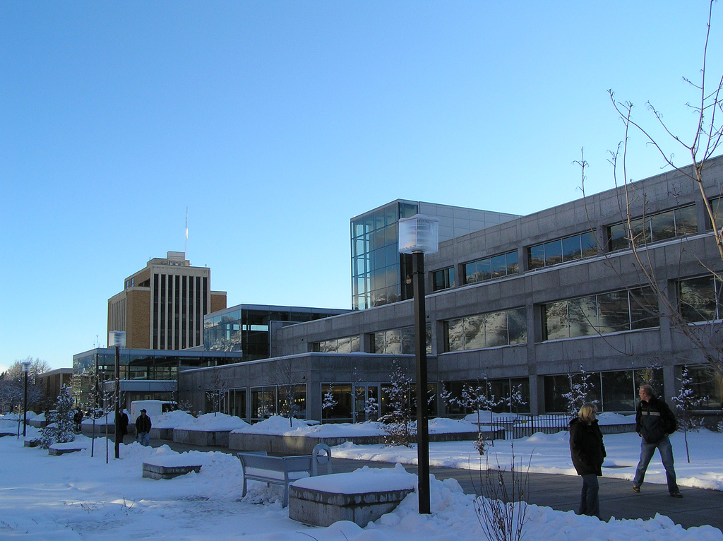 Image of the Merrill-Cazier Library in winter.